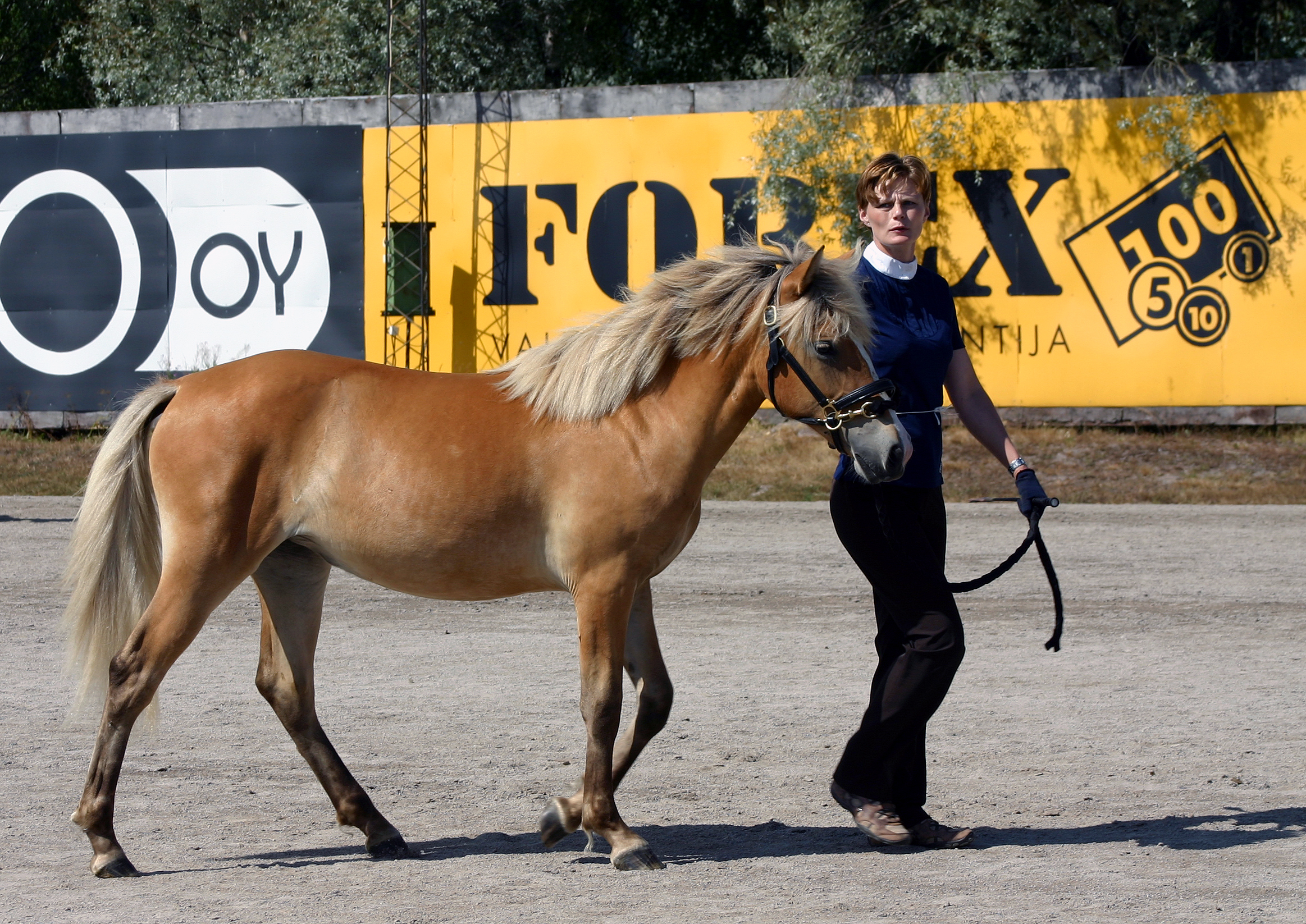 Silver bay P section Finnhorse yearling filly at the Vermo Pony Show 2010.